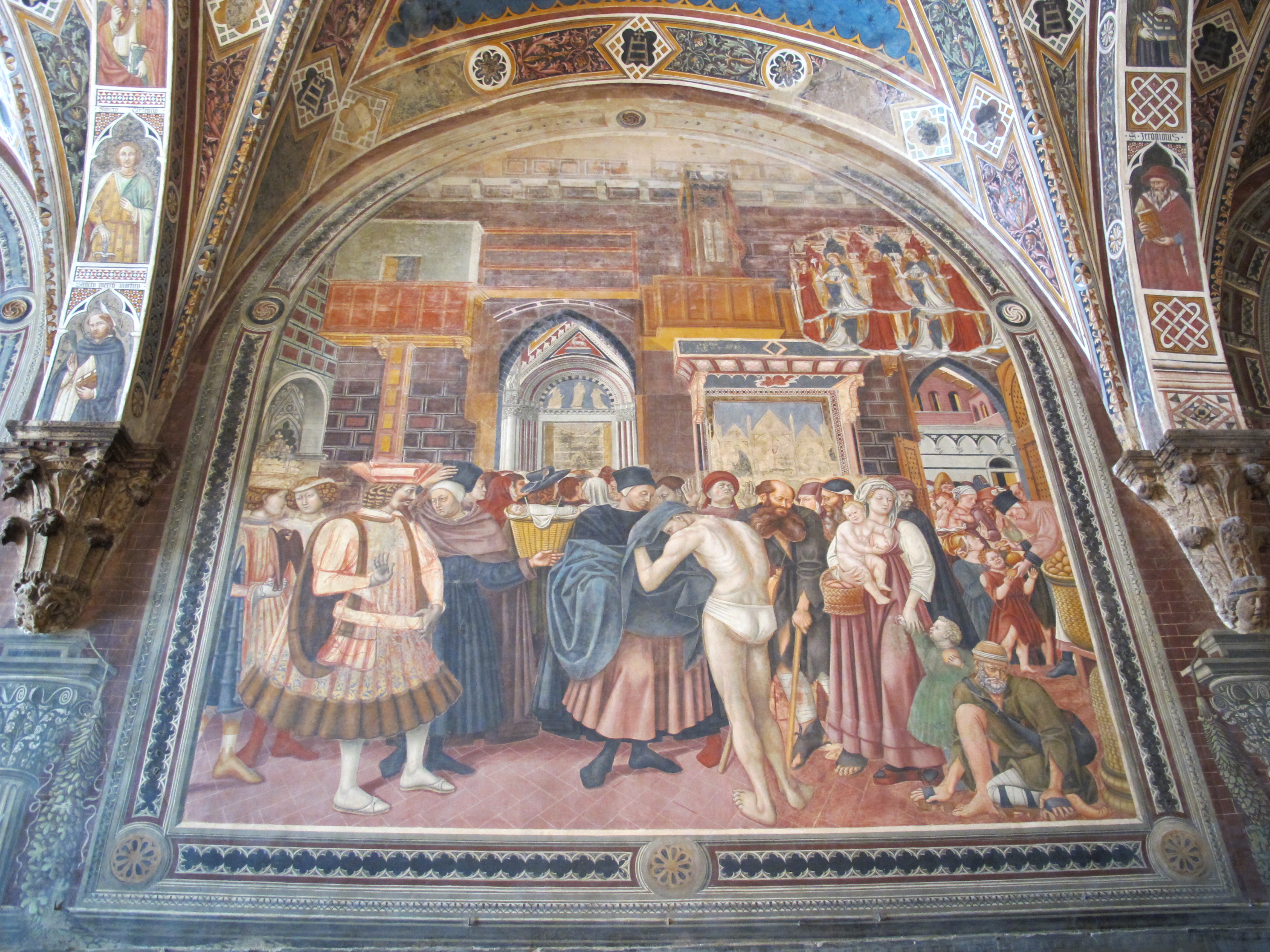 Pilgrims Lane in Santa Maria della Scala Hospital (Siena)